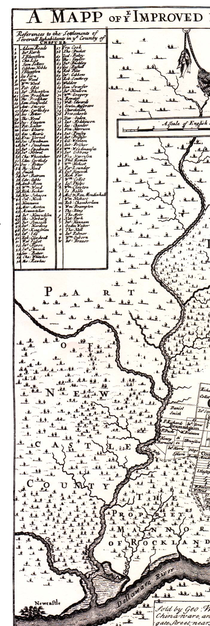 I cropped this from Thomas Holme's 1687 map of Pennsylvania. It shows the Brandywine (variant spelling on map) from its East branch source to its mouth on the "Chistian River" in current Wilmington, Delaware.